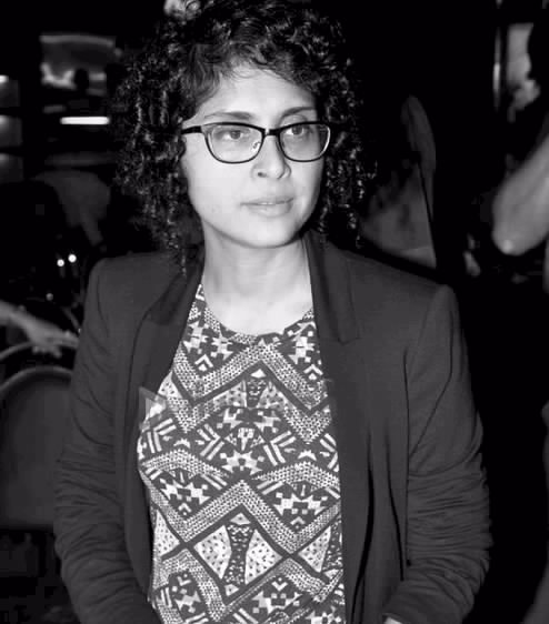 Kiran Rao at Kiran Rao & Anand Gandhi pledge their organs